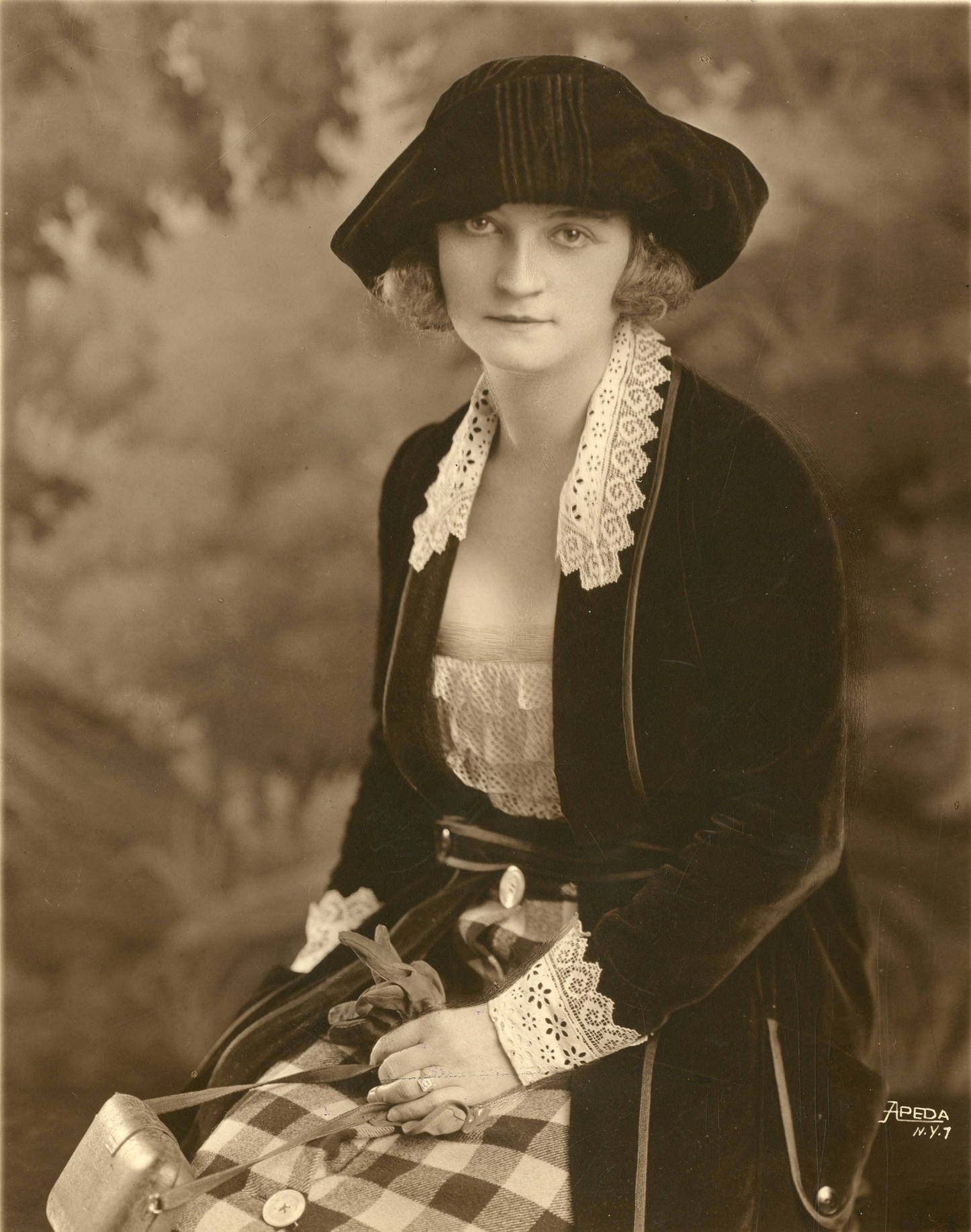 Belle Montrose, film actress Subjects: actresses